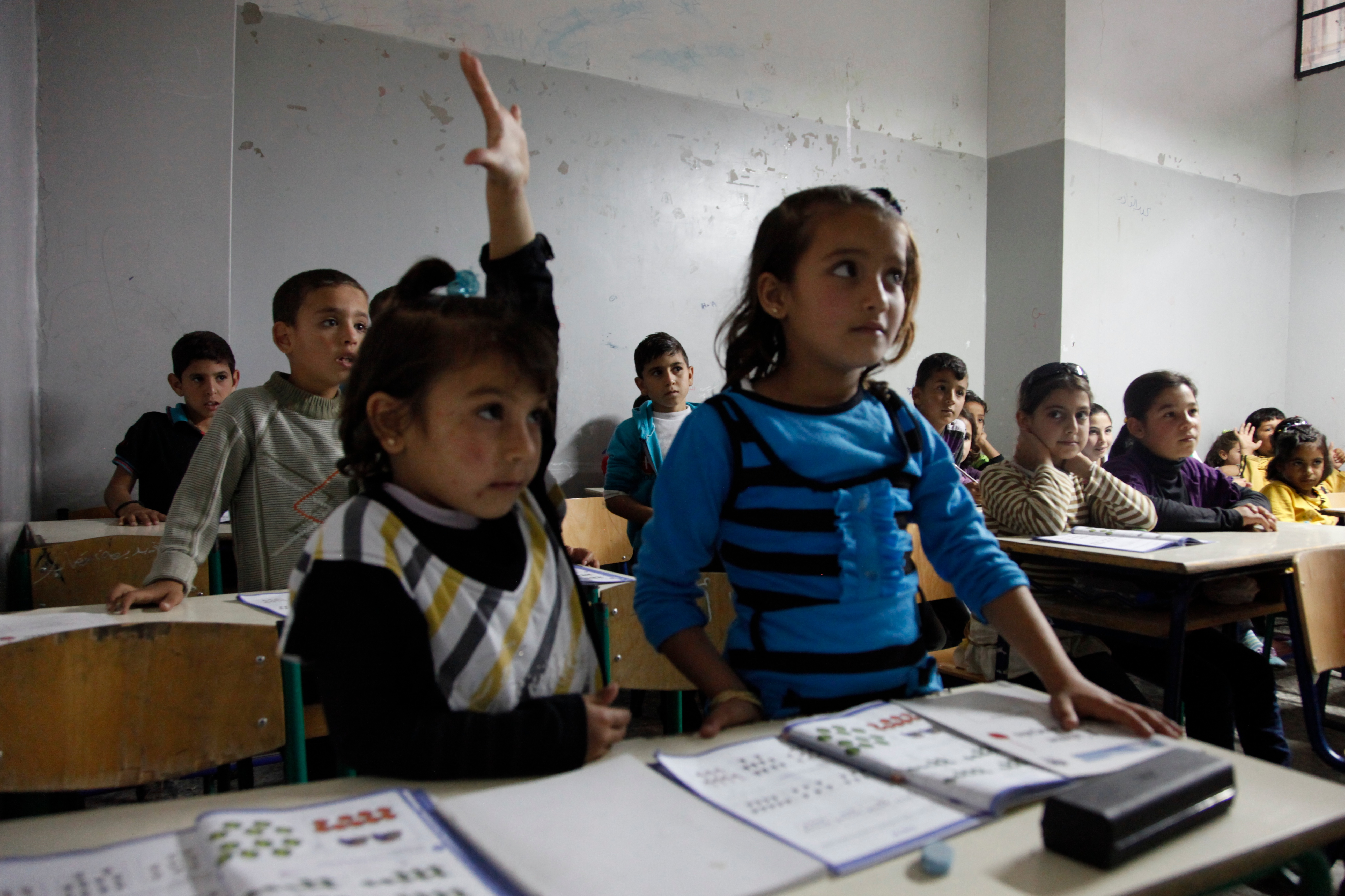 The UK is supporting efforts to get Syrian refugee children back into school, both inside Syria, and in neighbouring countries such as Lebanon and Jordan - to help prevent a lost generation. The conflict in Syria has displaced millions of people inside the country, and over 3 million Syrians have become refugees - more than half of whom are children. UK aid is providing text books for Syrian and Lebanese children in Lebanon, building additional classrooms and supporting non-formal education in refugee camps and settlements. The UK has committed over £50 million to the No Lost Generation intiative. To find out more, please Picture: Russell Watkins/Department for International Development